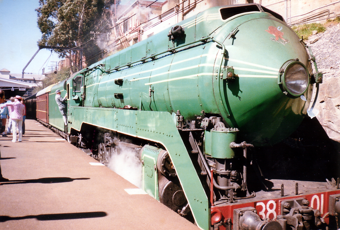 Image created by Gareth Edwards on Jan 20th, 2006. Scanned from a photograph taken by him.